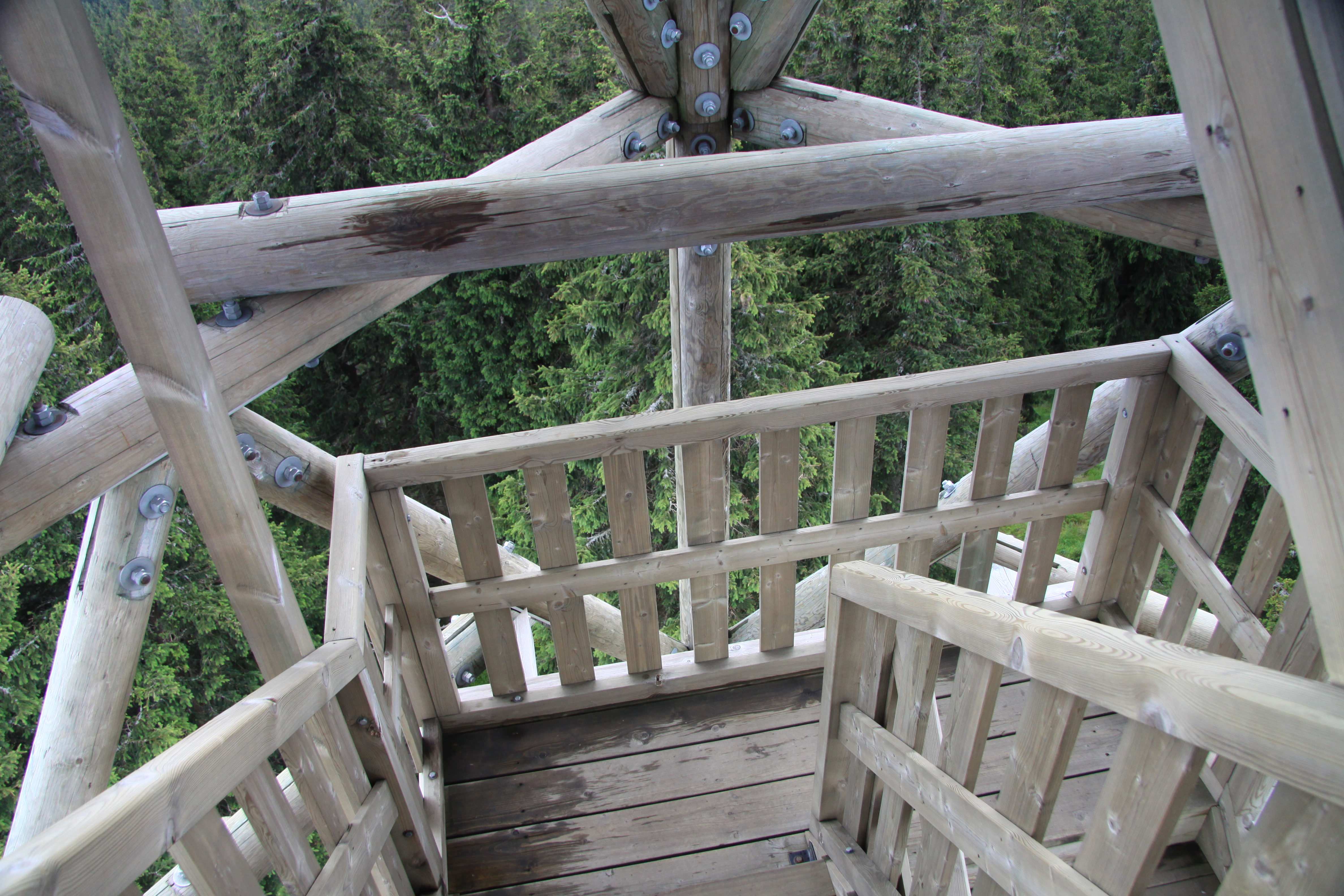 Watch tower Boubín in national nature reserve Boubínský prales, Prachatice District, Czech Republic - Google Maps - Google Earth